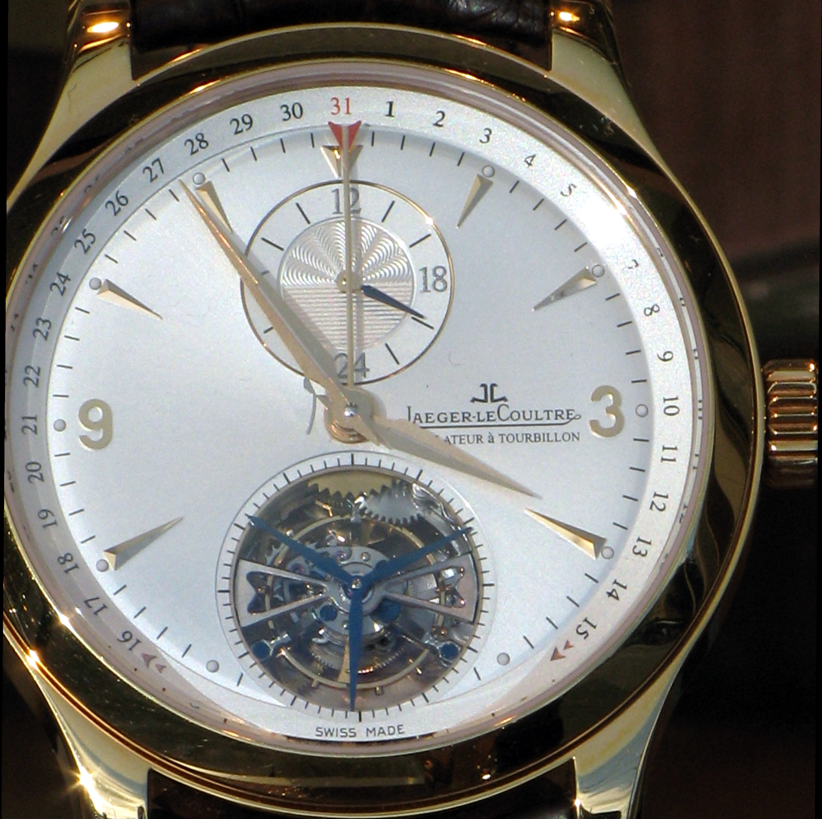 Jaeger-Lecoultre watch